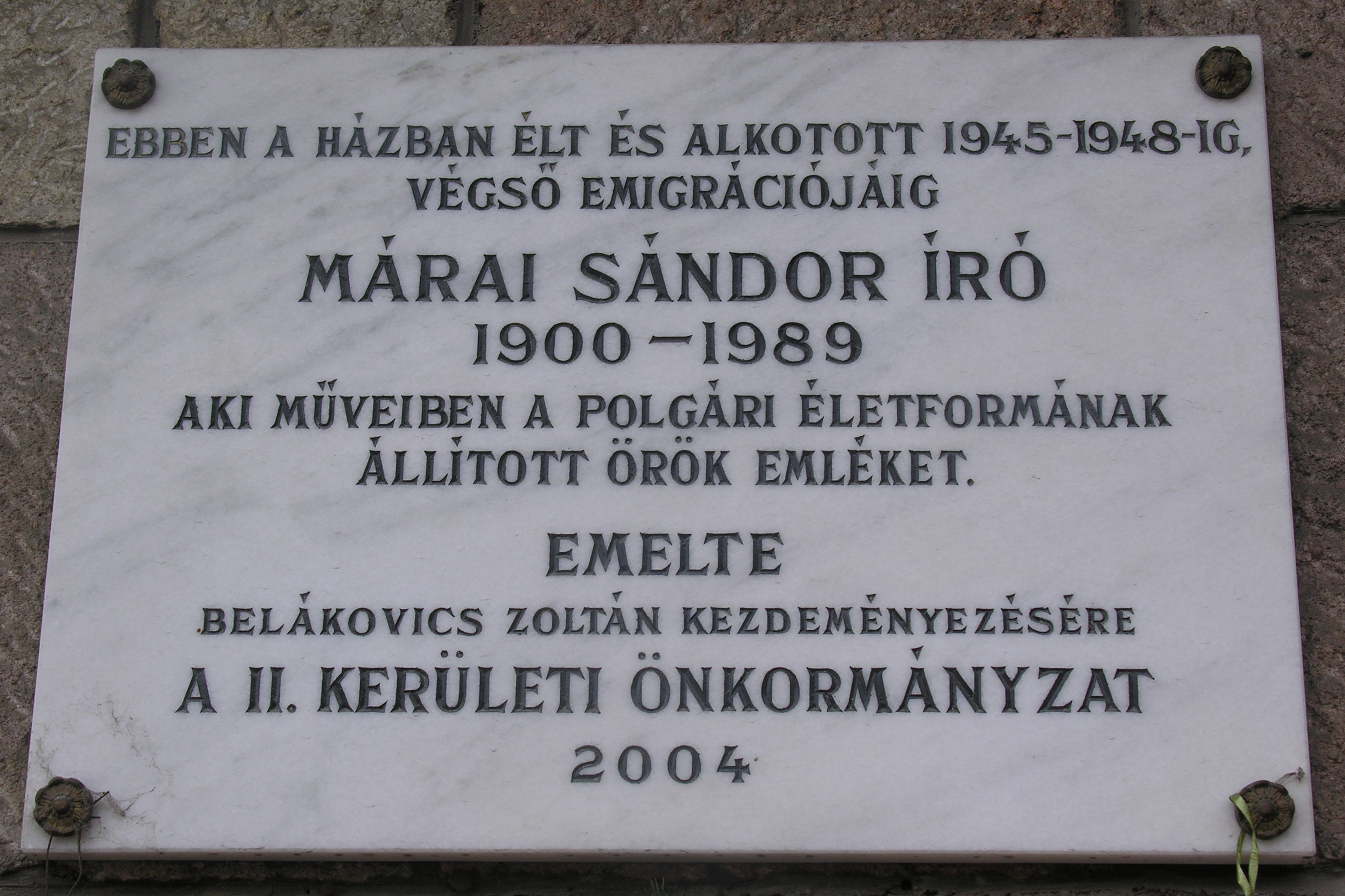 Commemorative plaque of Sándor Márai in Budapest District II, Rómer Flóris Street No 28